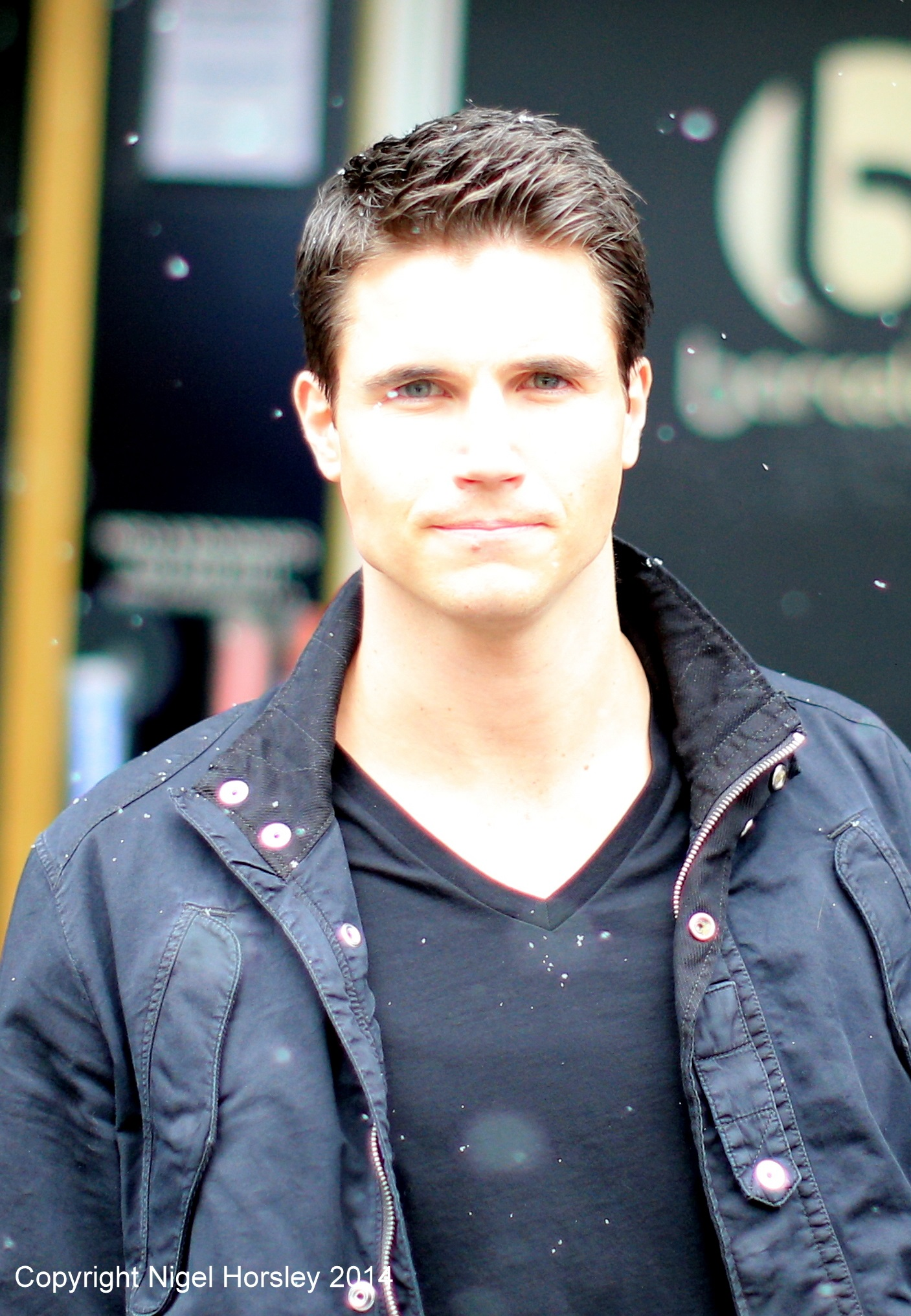 Robbie Amell filming for The Tomorrow People 2014